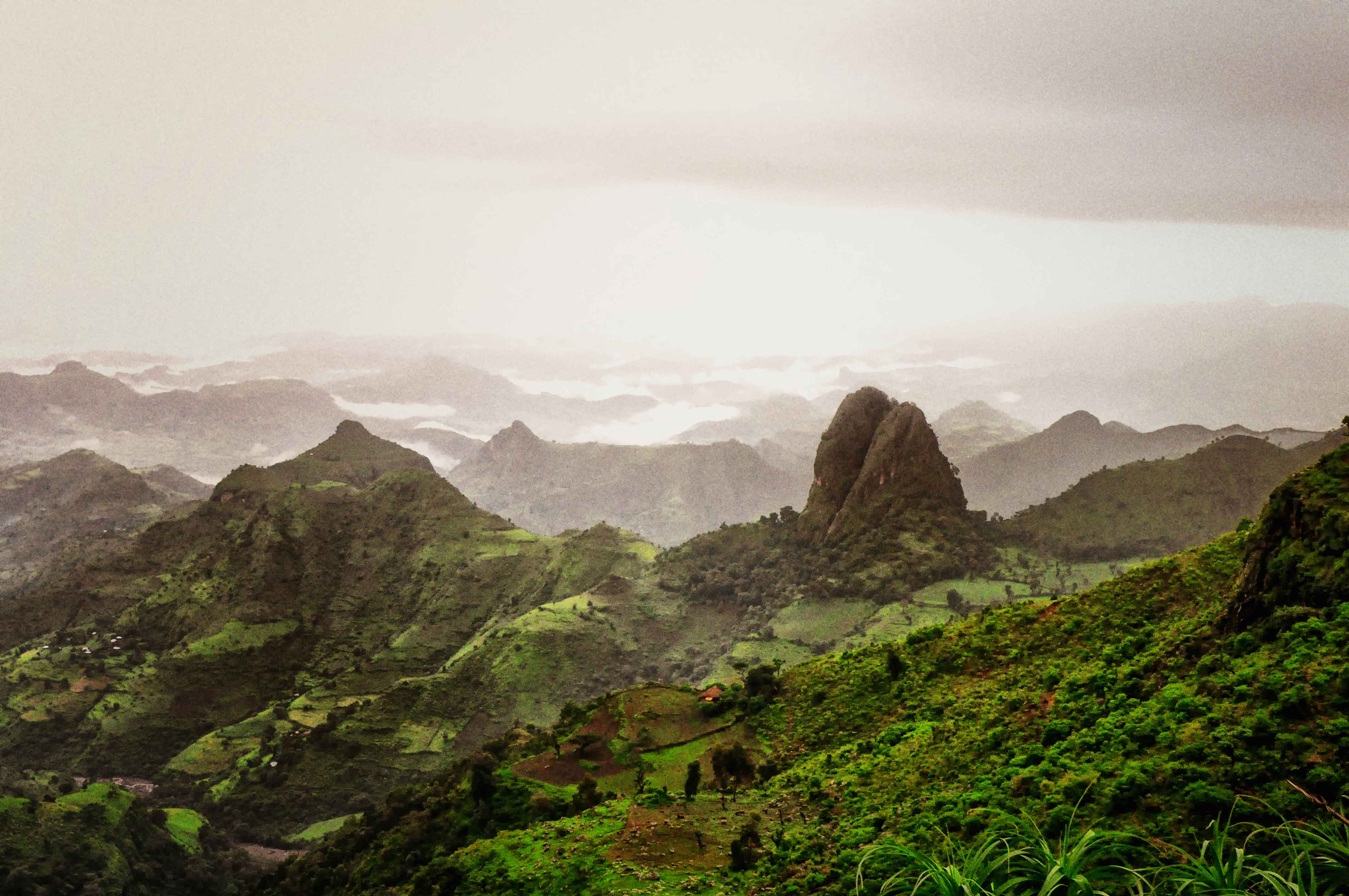 In the Lord of the Rings Tolkien took the name Gondar for one of this kingdoms. The Simiens have a misty, vertical feel with Gelada baboons roaming in packs of hundreds. The farmers have to protect their crops from these hoards of baboons with the proviso that they are protected with a sentence of 7 years for anyone convicted of killing one.